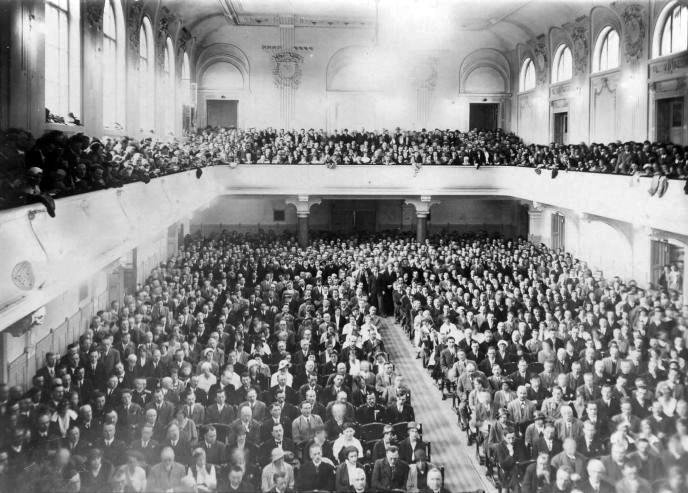 Rally of the Slovene People's Party (SLS) in the 1920s.